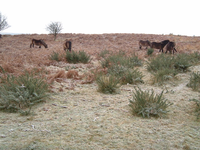 Exmoor Ponies between Cloutsham Gate & Stoke Pero. This lane over Exmoor between Cloutsham Gate and Stoke Pero is a favourite place to spot wild Exmoor ponies. Deer can often be seen here too, though none were in evidence when I took this shot.